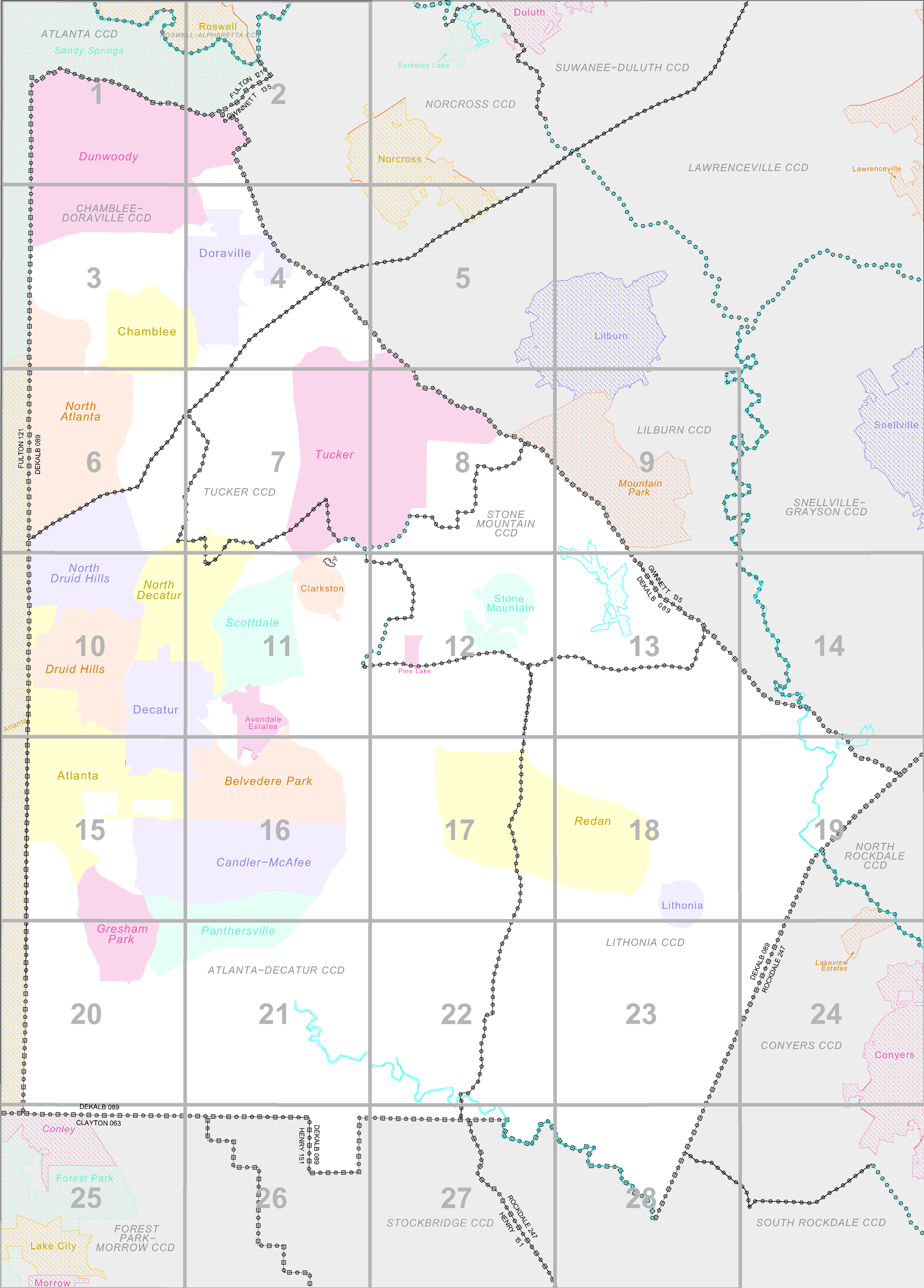 Census 2000 Block Map of DeKalb County, Georgia, United States, showing DeKalb's five Census County Divisions: Chamblee-Doraville, Tucker, Stone Mountain, Lithonia, and Atlanta-Decatur.